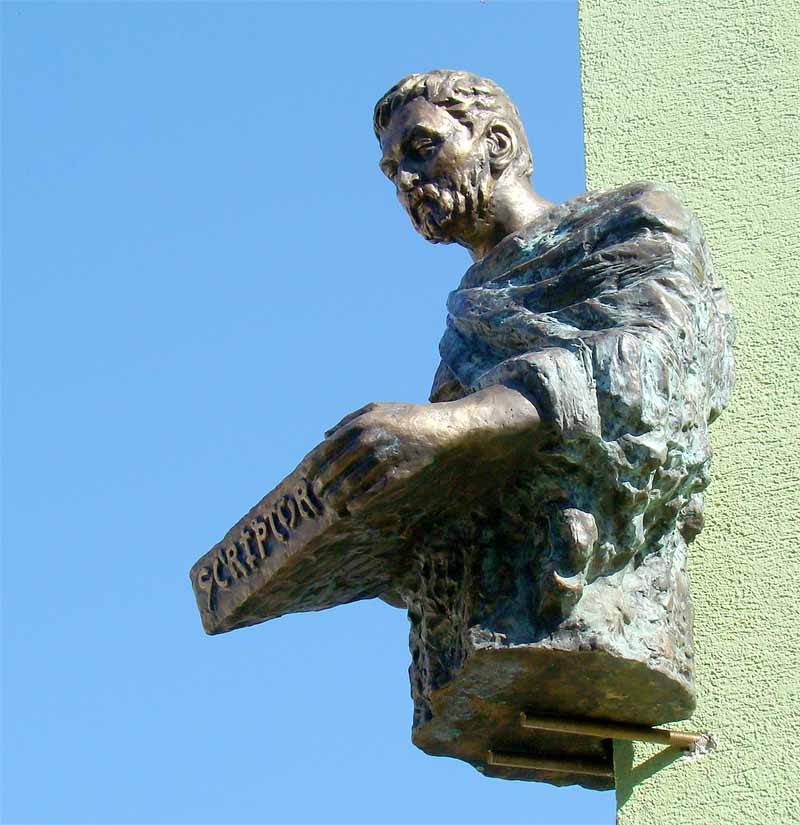 A statue called as Scriptor on the corner of the street near the centre of Slovakian city Nové Zámky.